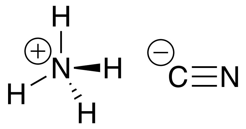 Line-format with 3-d indications.